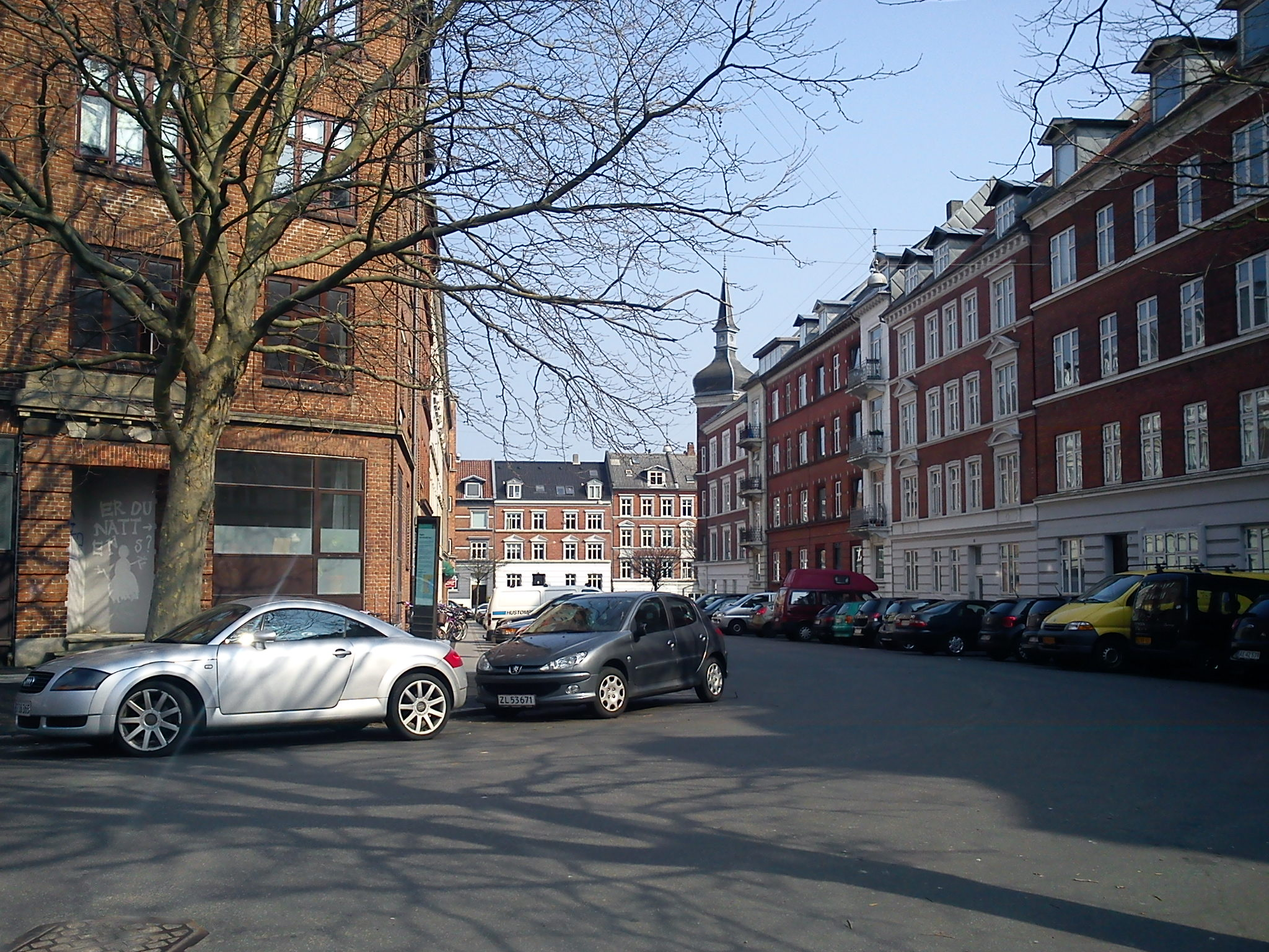 Falstersgade